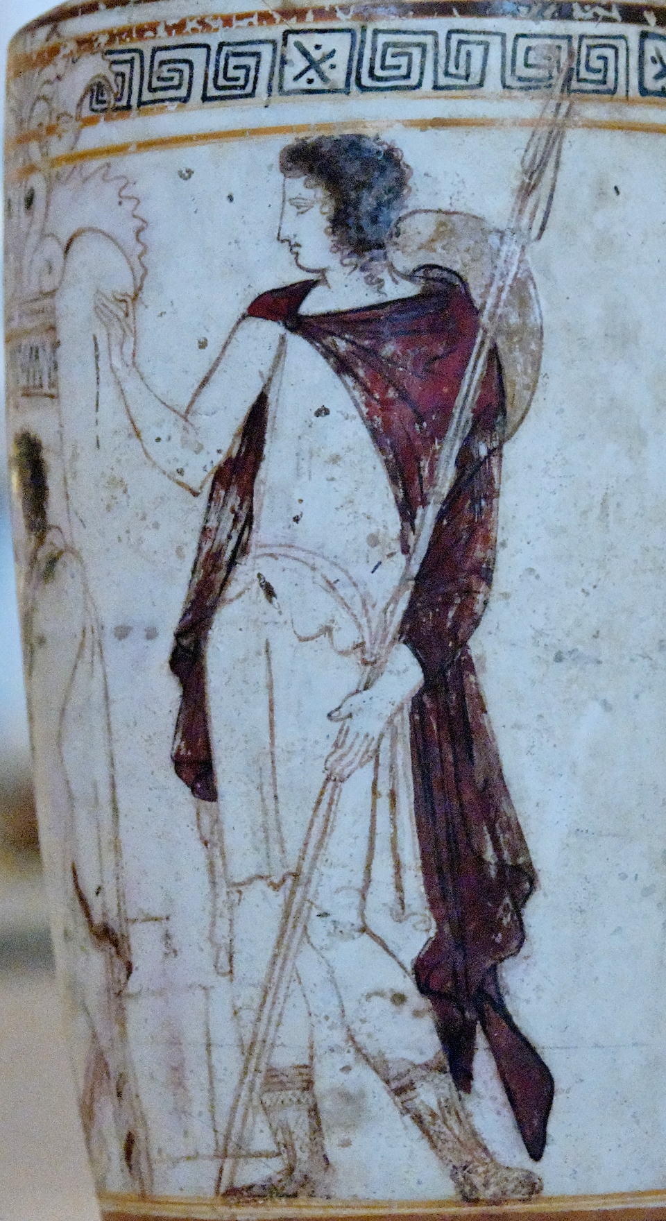 Young warrior with cloak and petasos in a funerary scene. Attic white-ground lekythos, ca.440–430 BC.